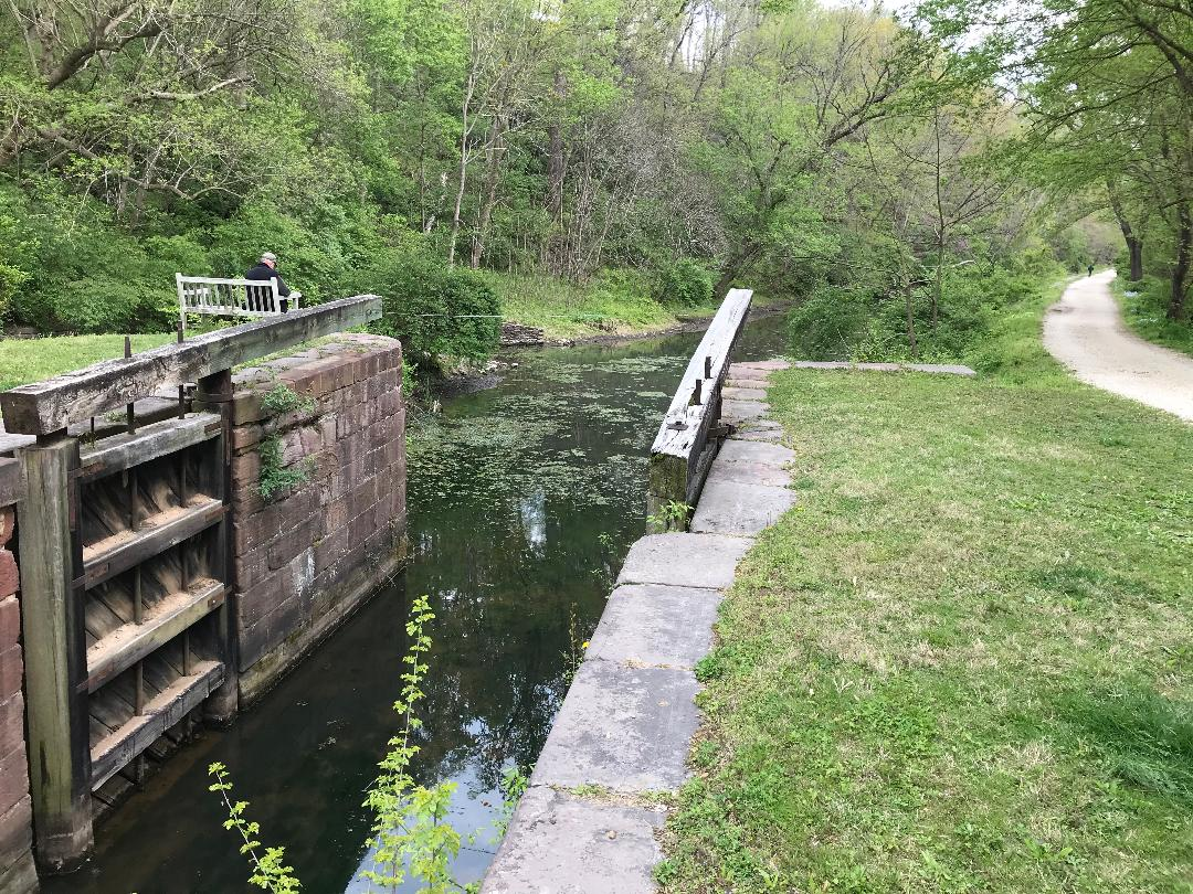 Swain's Lock (#21) on C&O Canal in C&O Canal National Historical Park in Travilah/Potomac, Maryland.